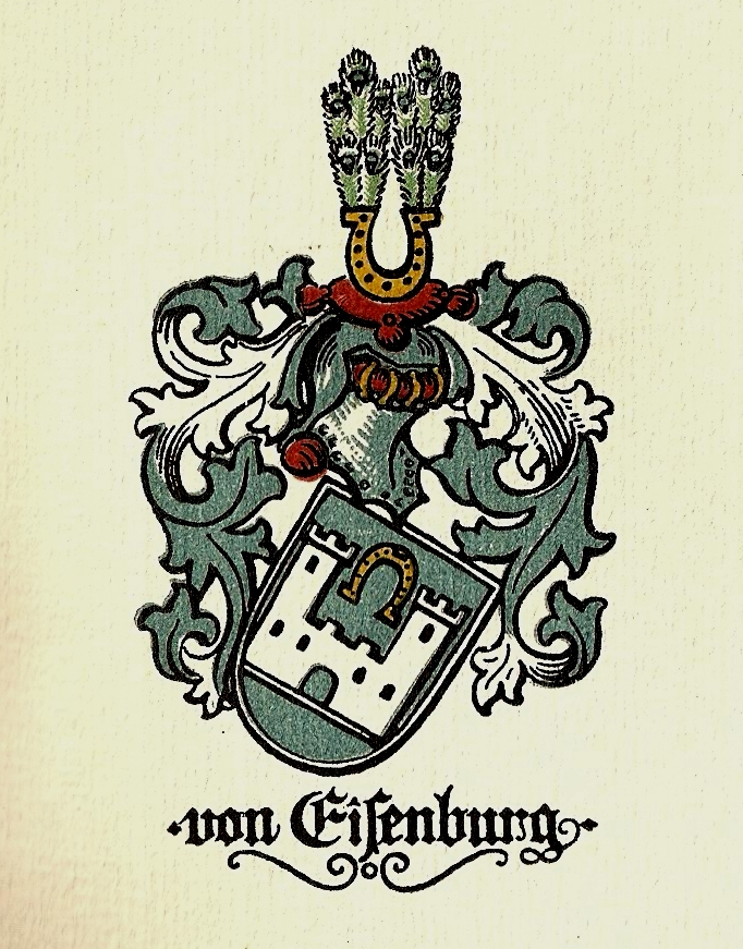 This is a scan of the document: Ludwig Mayr - Geschichte der Herrschaft Eisenburg (History of the Herrschaft Eisenburg)